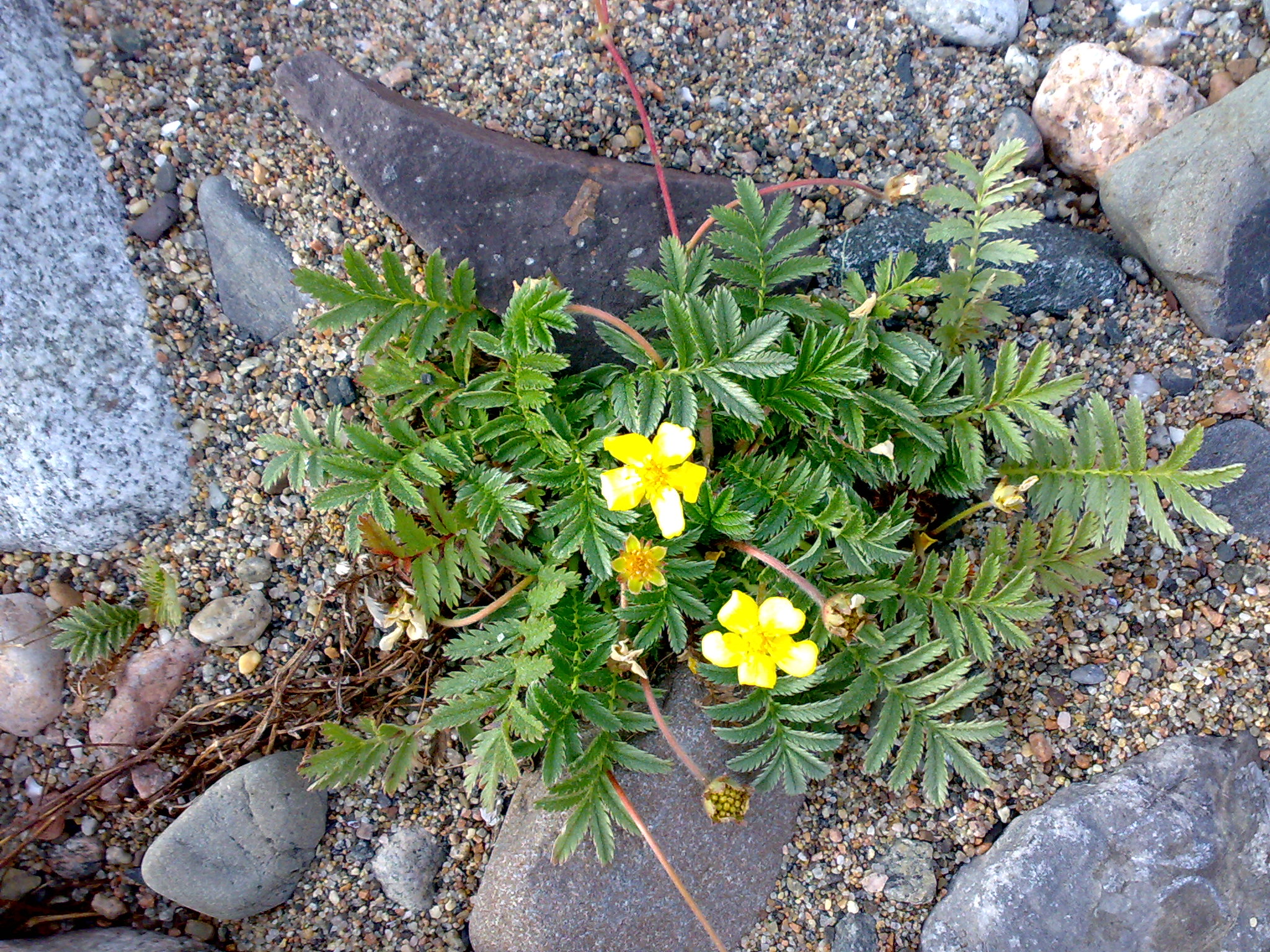 Potentilla anserina